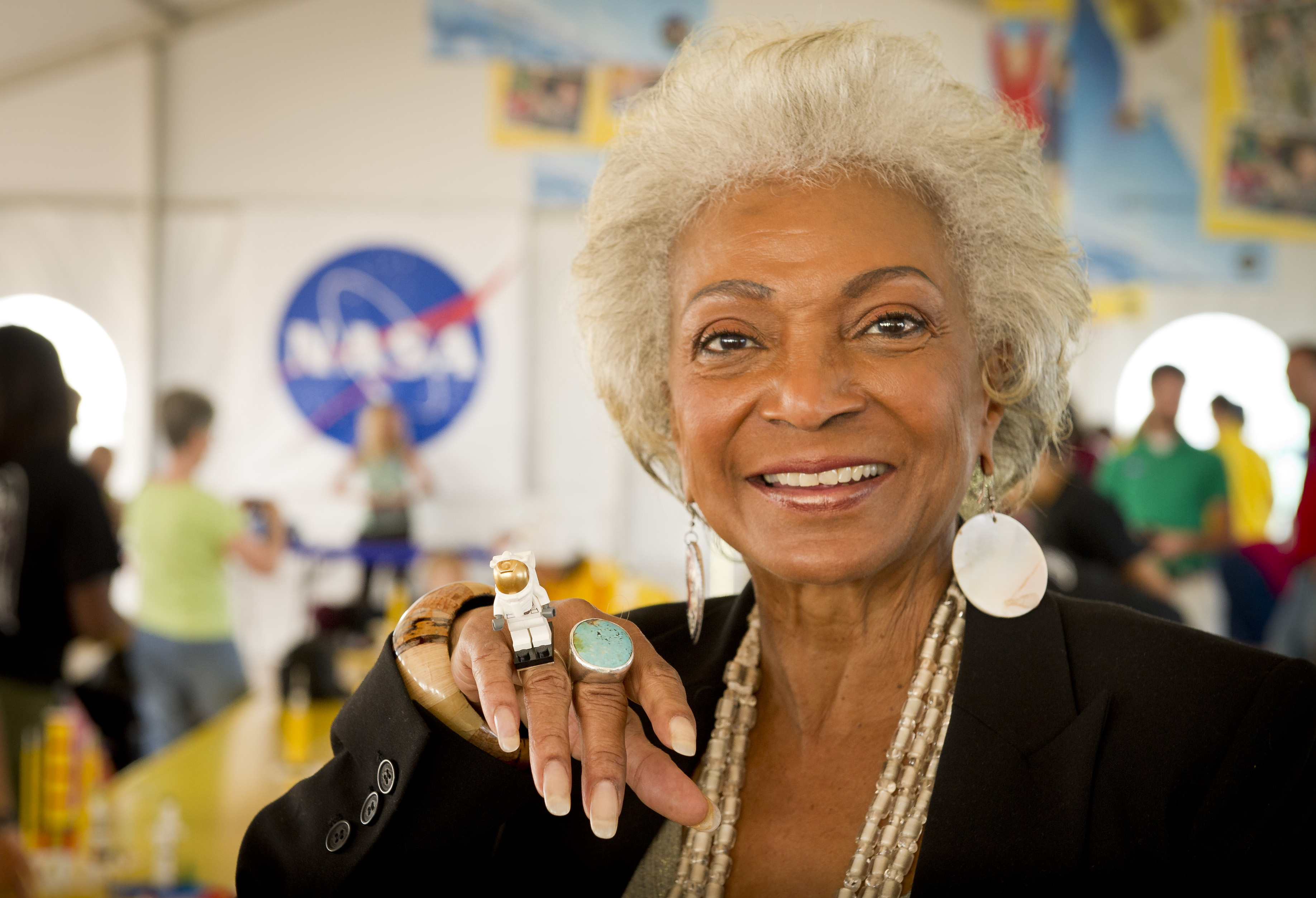 Actress Nichelle Nichols, known for her most famous role as communications officer Lieutenant Uhura aboard the USS Enterprise in the popular Star Trek television series, displays her Lego astronaut ring while visiting the âBuild the Futureâ activity where students created their vision of the future in space with LEGO bricks and elements inside a tent that was set up on the launch viewing area at NASA's Kennedy Space Center in Cape Canaveral, Fla. on Monday, Nov. 1, 2010. NASA and The LEGO Group signed a Space Act Agreement to spark children's interest in science, technology, engineering and math (STEM). Photo Credit: (NASA/Bill Ingalls) NASA Identifier: nasahqphoto-5161637425